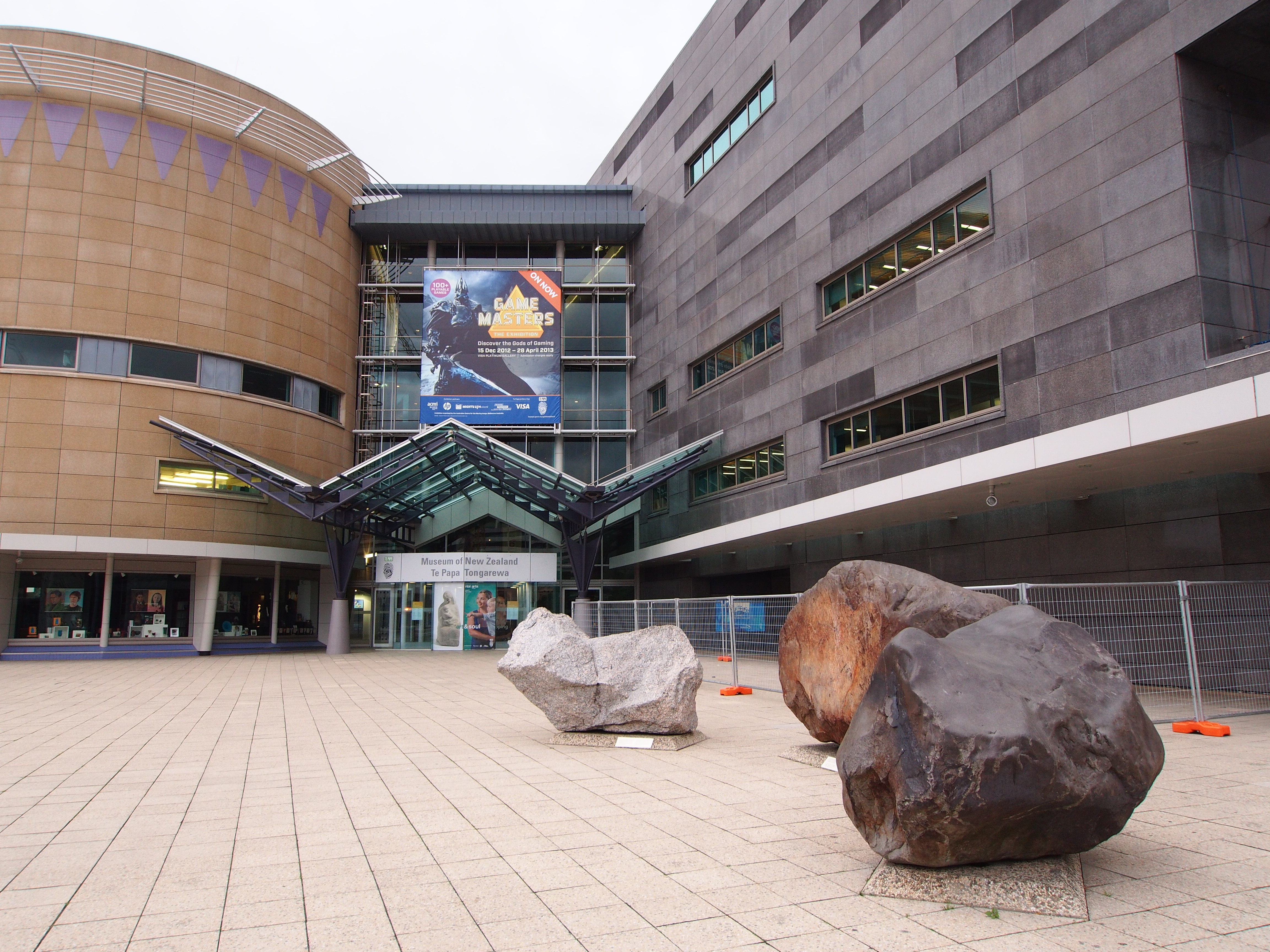 Museum of New Zealand - 2013.04